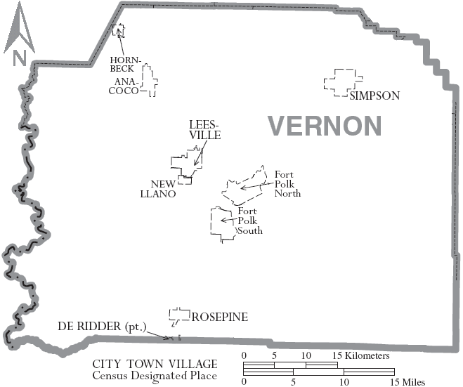 Map of Vernon Parish, Louisiana, United States with municipal boundaries